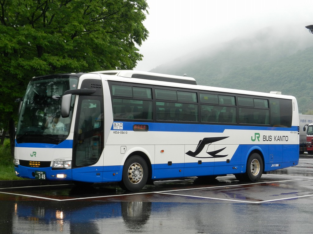 JR bus Kanto Mitsubishi Fuso Aero Ace (BKG-MS96JP)Highwaybus "Nasu-Shiobara Resort Express (NRX)"(Shinjuku-Shiobara onsen)